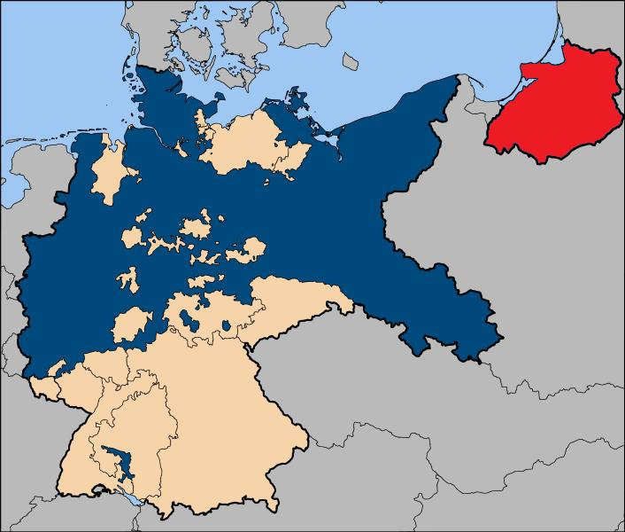 East Prussia during Weimar Republic and Third Reich